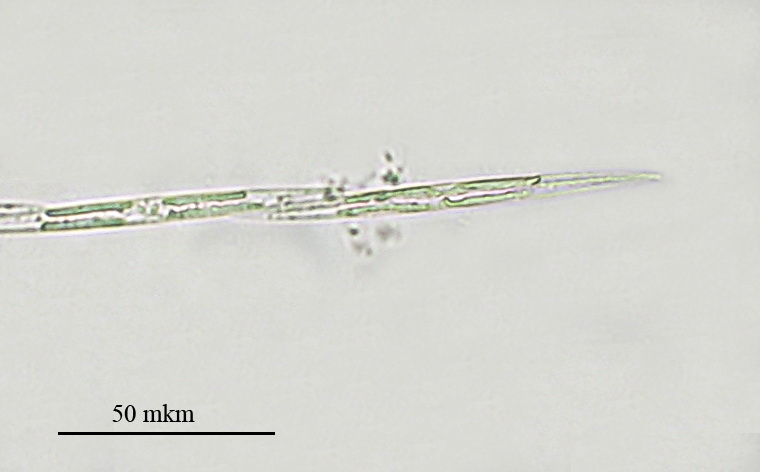 Hydrofront of Dnieper-Bug Liman